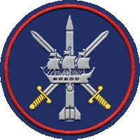 Insignia of the Russian 1st Aerospace Defense Brigade